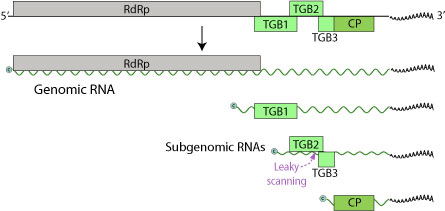 Transcription and mRNA synthesis of the potexvirus genome